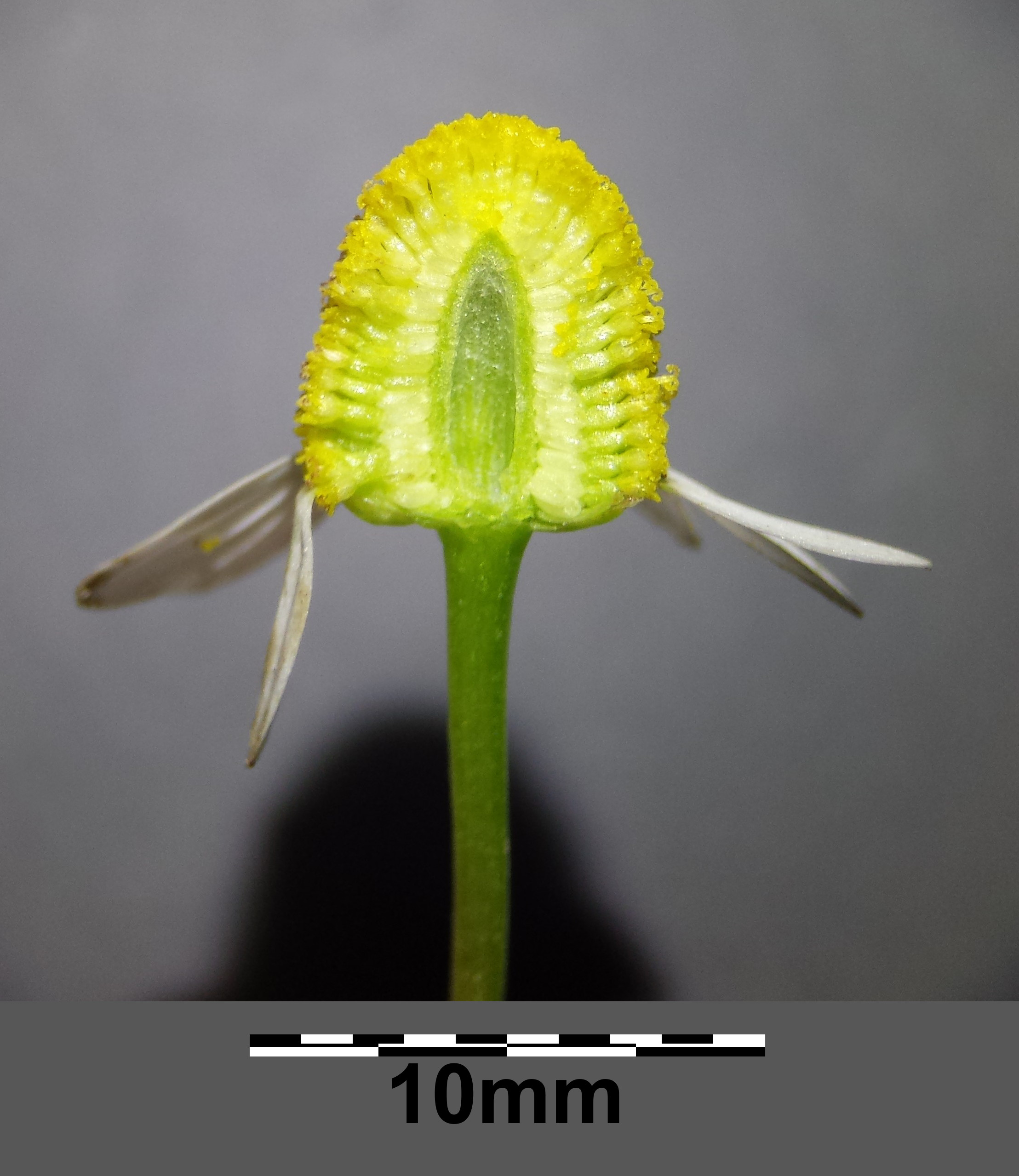 Flower basket (cut-through) Taxonym: Matricaria chamomilla ss Fischer et al. EfÖLS 2008 ISBN 978-3-85474-187-9 Location: pond near Michelstetten, district Mistelbach, Lower Austria - ca. 250 m a.s.l. Habitat: shore of a pond